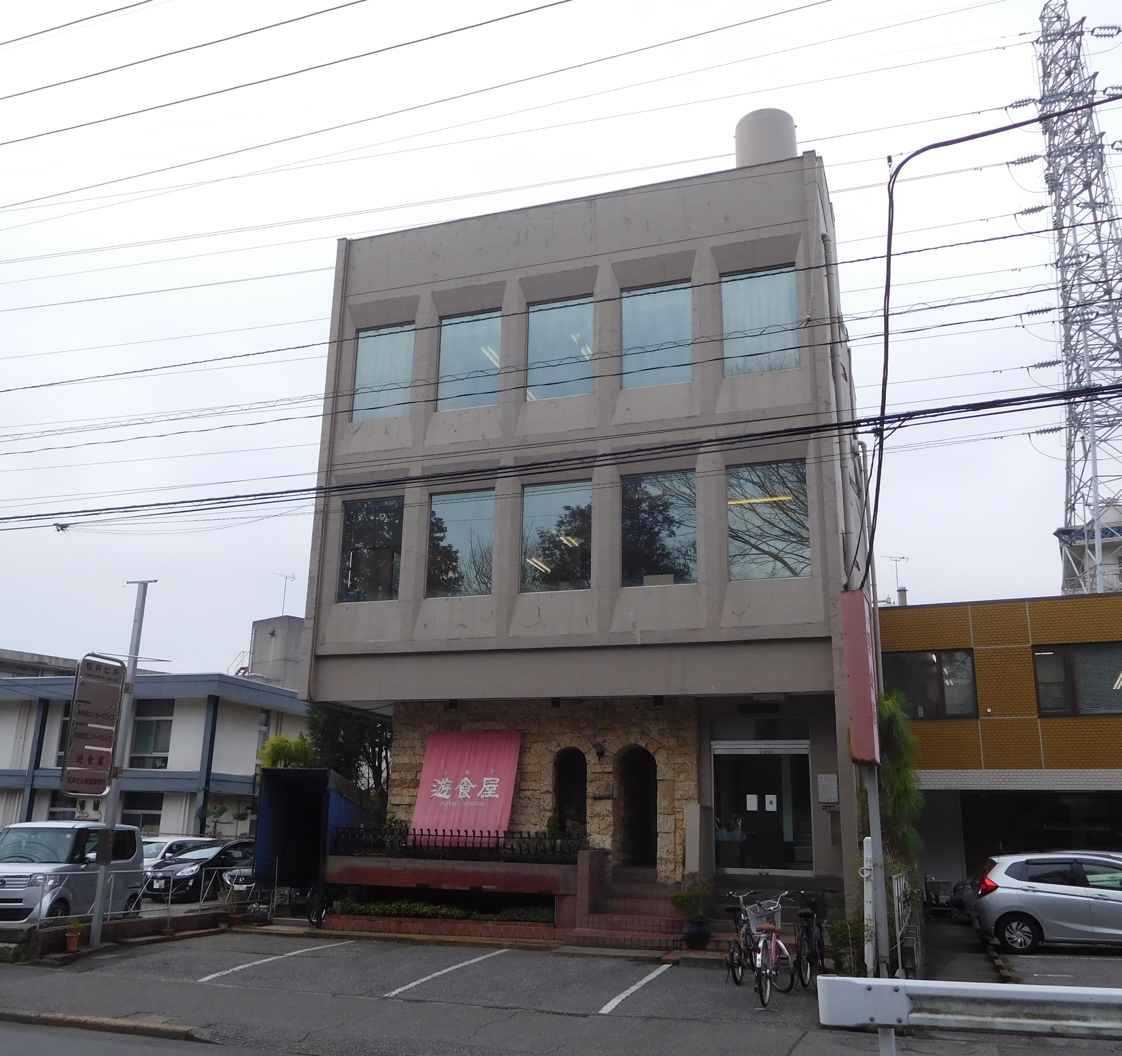 This is Matsui building in Utsunomiya, Tochigi, Japan. It has the head office of Tochihou Enterprise Co.,Ltd.